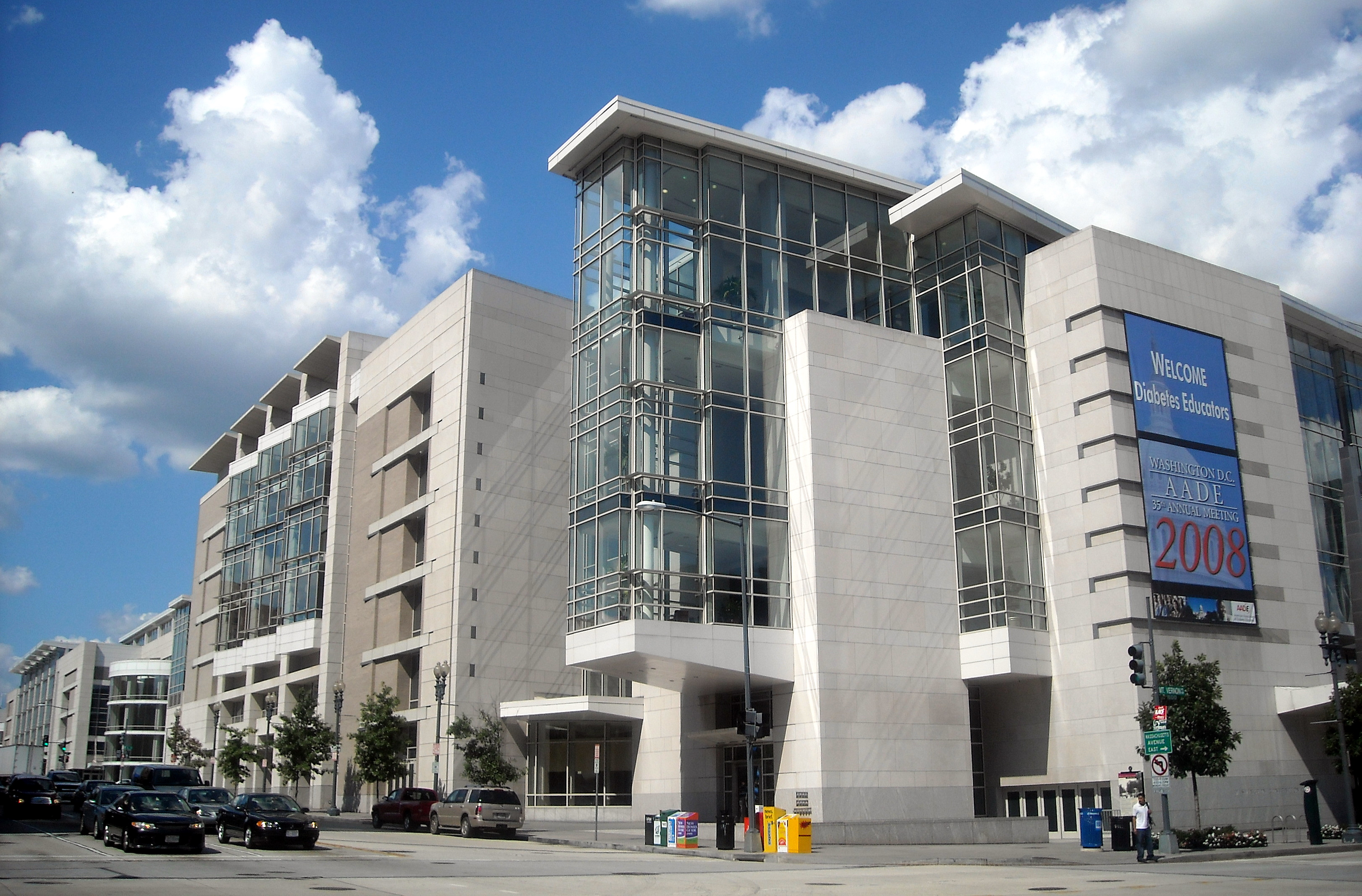 The Washington, D.C. Convention Center at Mount Vernon Square. The picture was taken from from 9th and Massachusetts Avenue, NW.